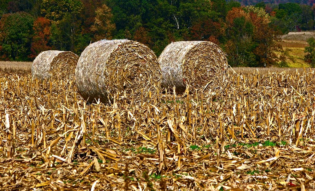 Round bales along Muddy Fork Road in Perry Township, Pike County, Ohio, United States. Note that the bale is composed of corn, not of hay.